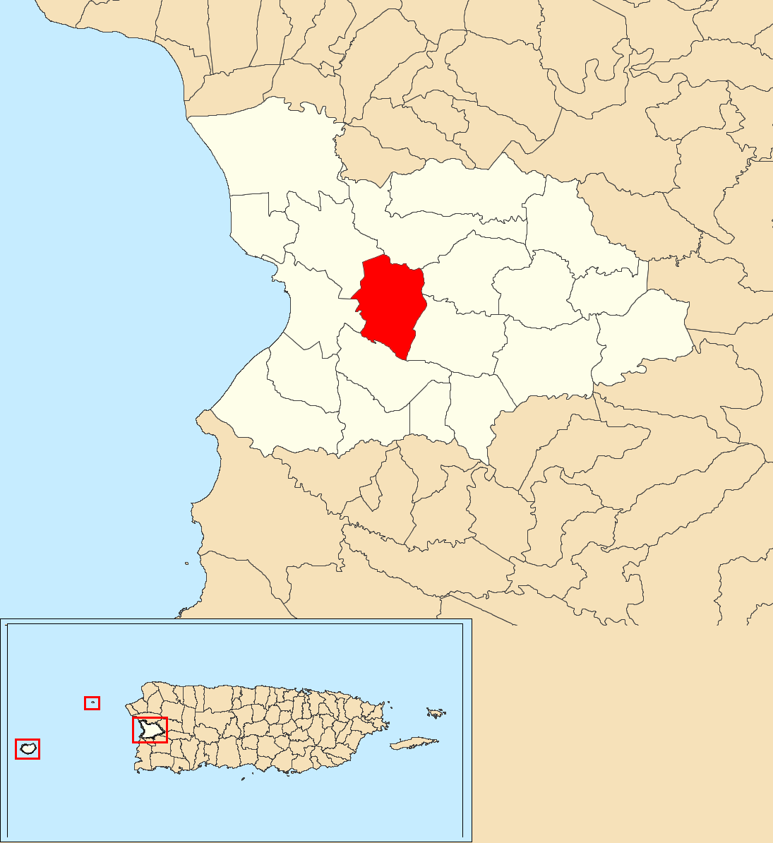 Mayagüez Arriba, Mayagüez, Puerto Rico locator map